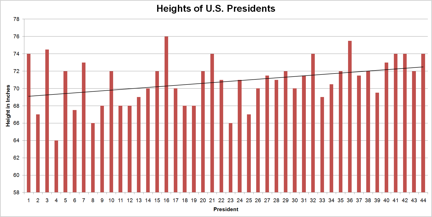 Graph of U.S. presidential heights. Created using MS Excel, February 2006, by jengod. Replaces :Image:Graph-potus-heights.jpg. New version created using MS Excel, August 2009, by OCNative.